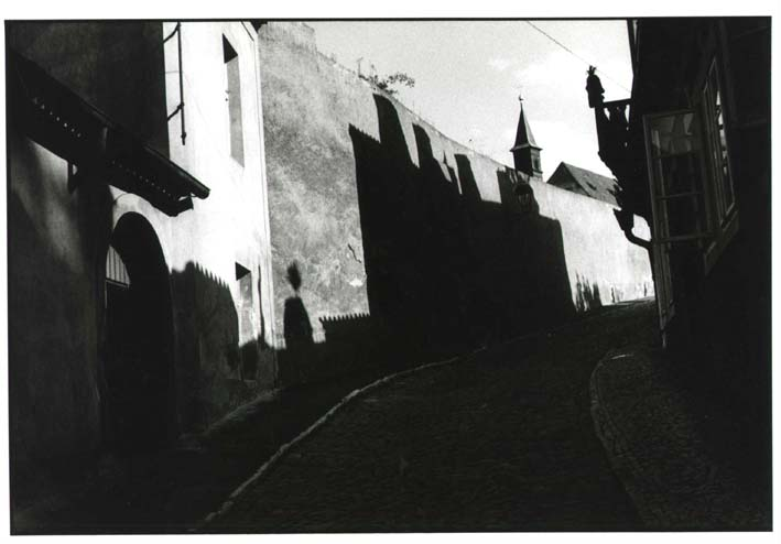 Stanislav Tůma: Tématické okruhy: Praha - Malá Strana a Hradčany (městská krajina): Název fotografie:Černínská, Praha - Hradčany, 1980